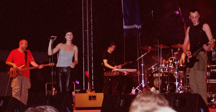 The german band Bell, Book and Candle in concert